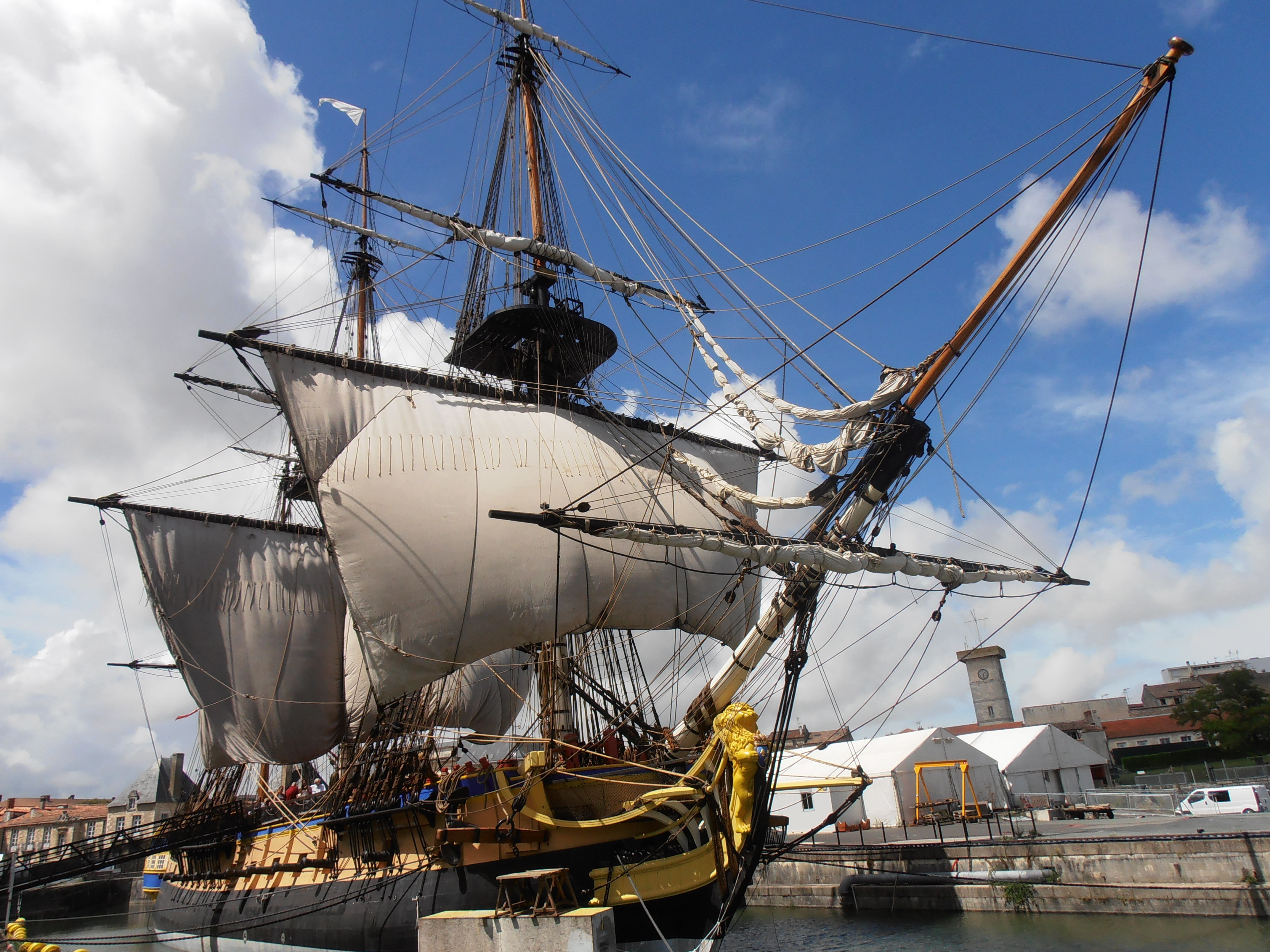 boat Hermione